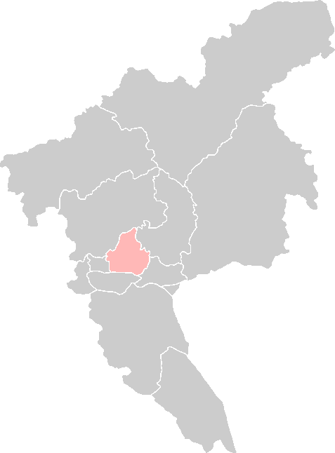 A Blank Map of Guangzhou Map